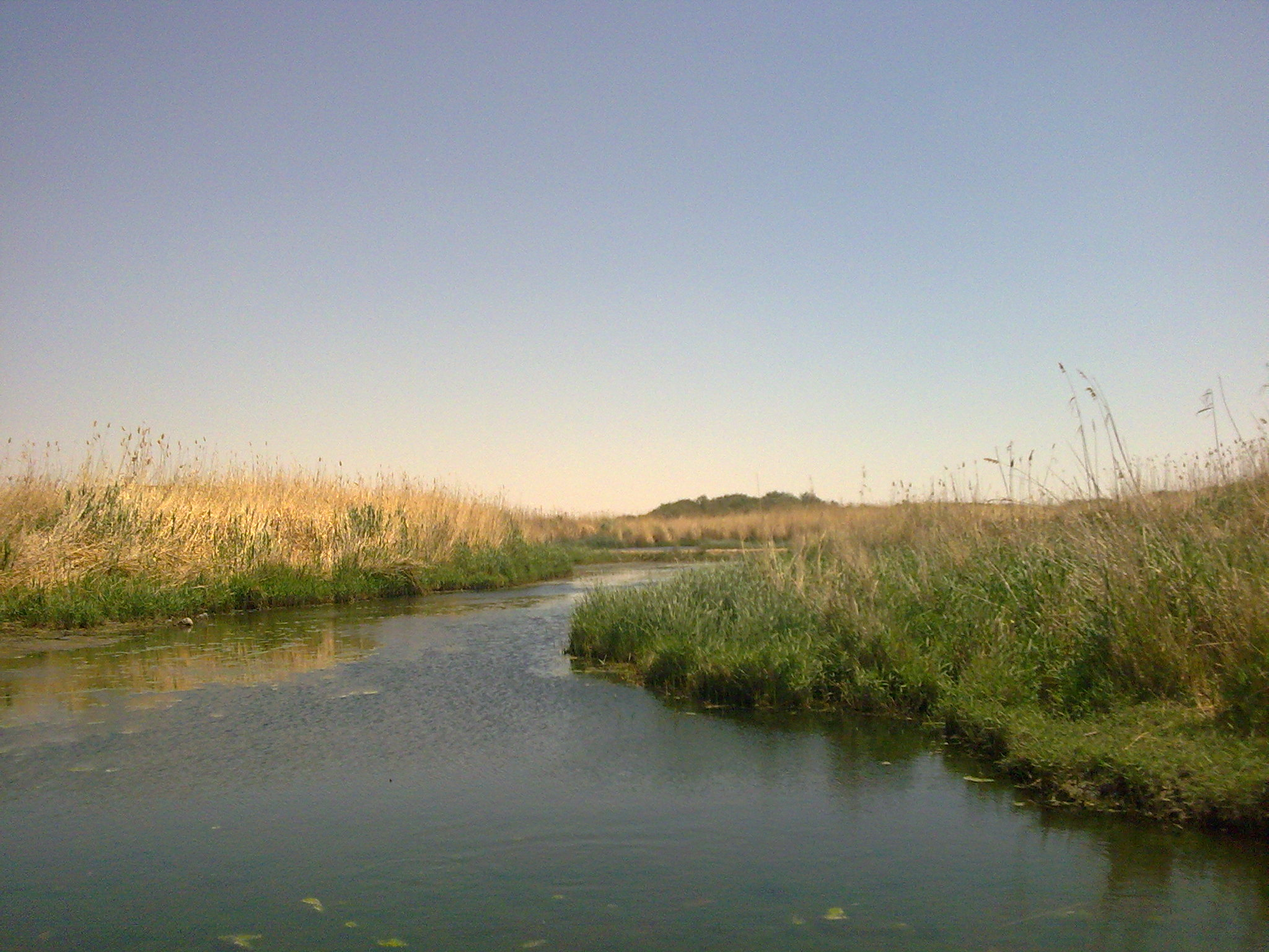 Self made at the Azraq wetlands reserve.